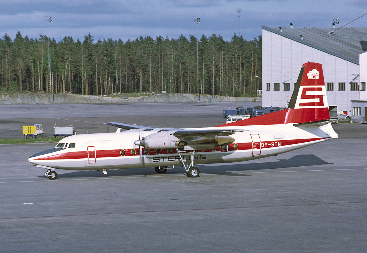 Sterling Airways Fokker F-27-500 Friendship OY-STN at Stockholm-Arlanda Airport